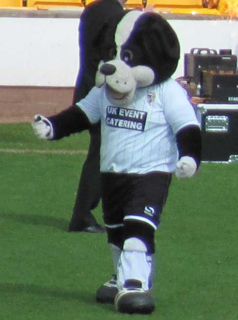 Pictured during the 2-2 draw between Port Vale and Northampton Town on 20 April 2013.